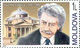 Stamp of Moldova